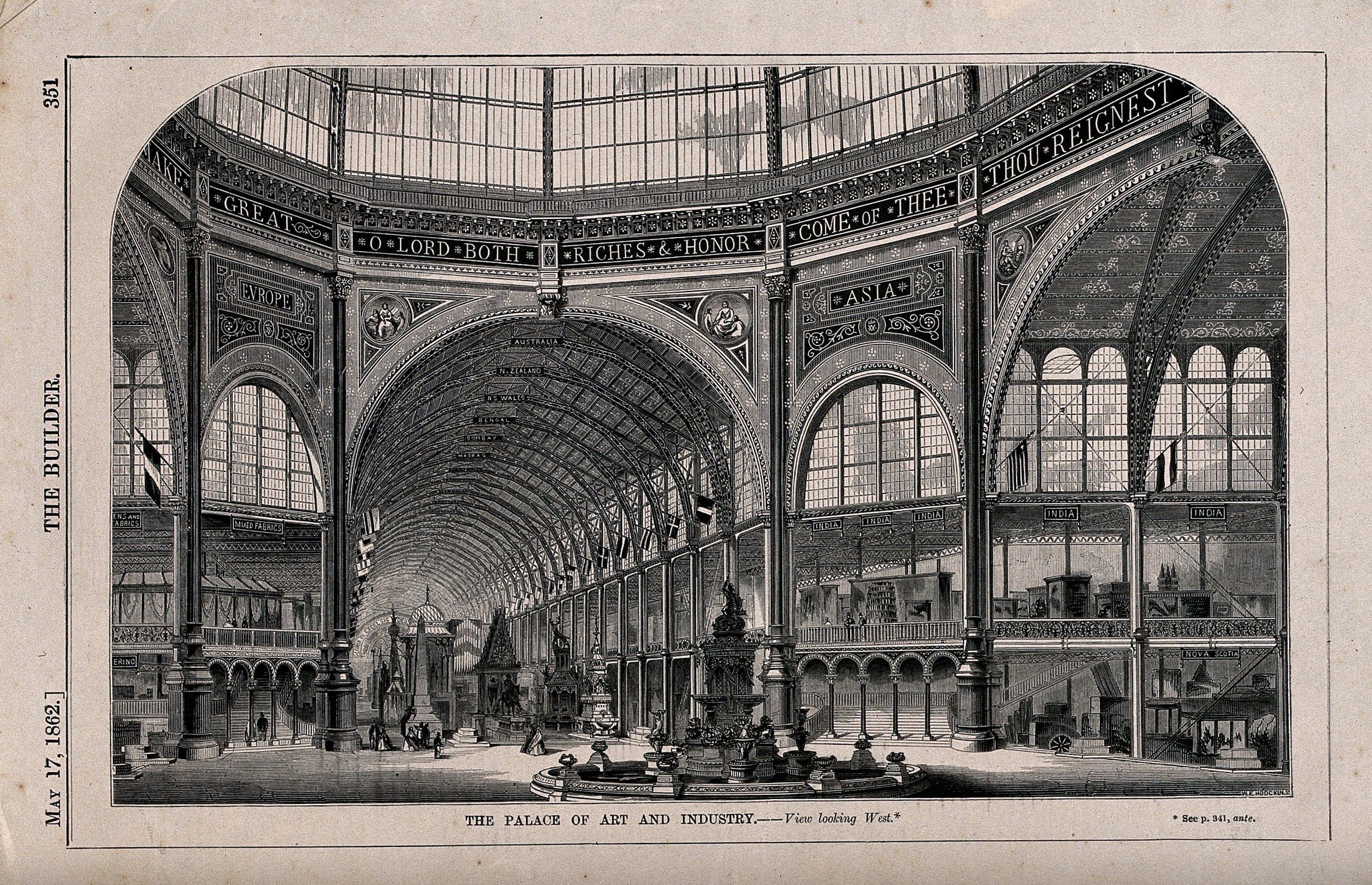 The Palace of Art and Industry, exhibition of 1862: the interior, at the crossing, looking west. Wood engraving by W. E. Hodgkin, 1862. Iconographic Collections Keywords: W. E. Hodgkin; John Gregory Crace; Francis Fowke